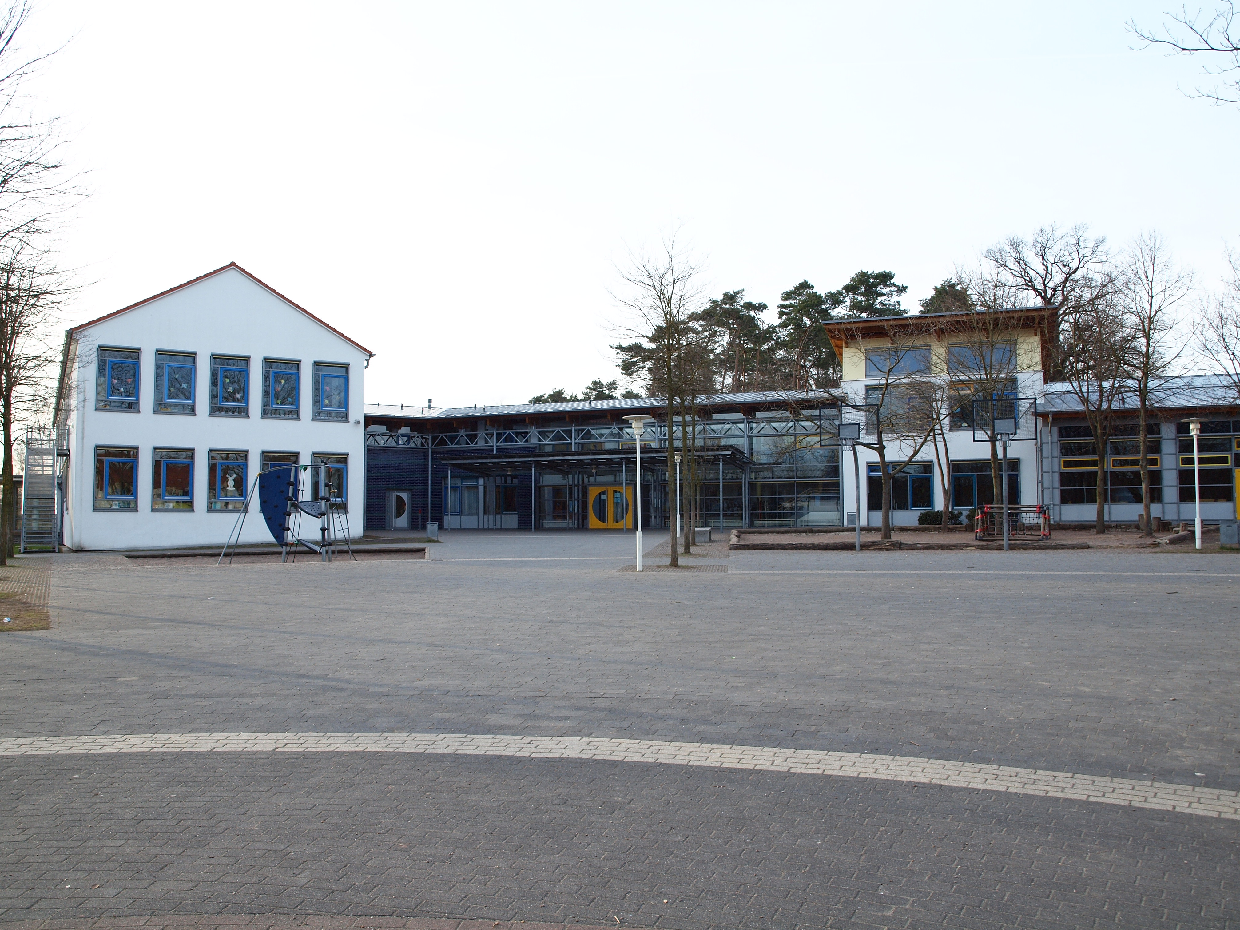 Elementary school Schlangen